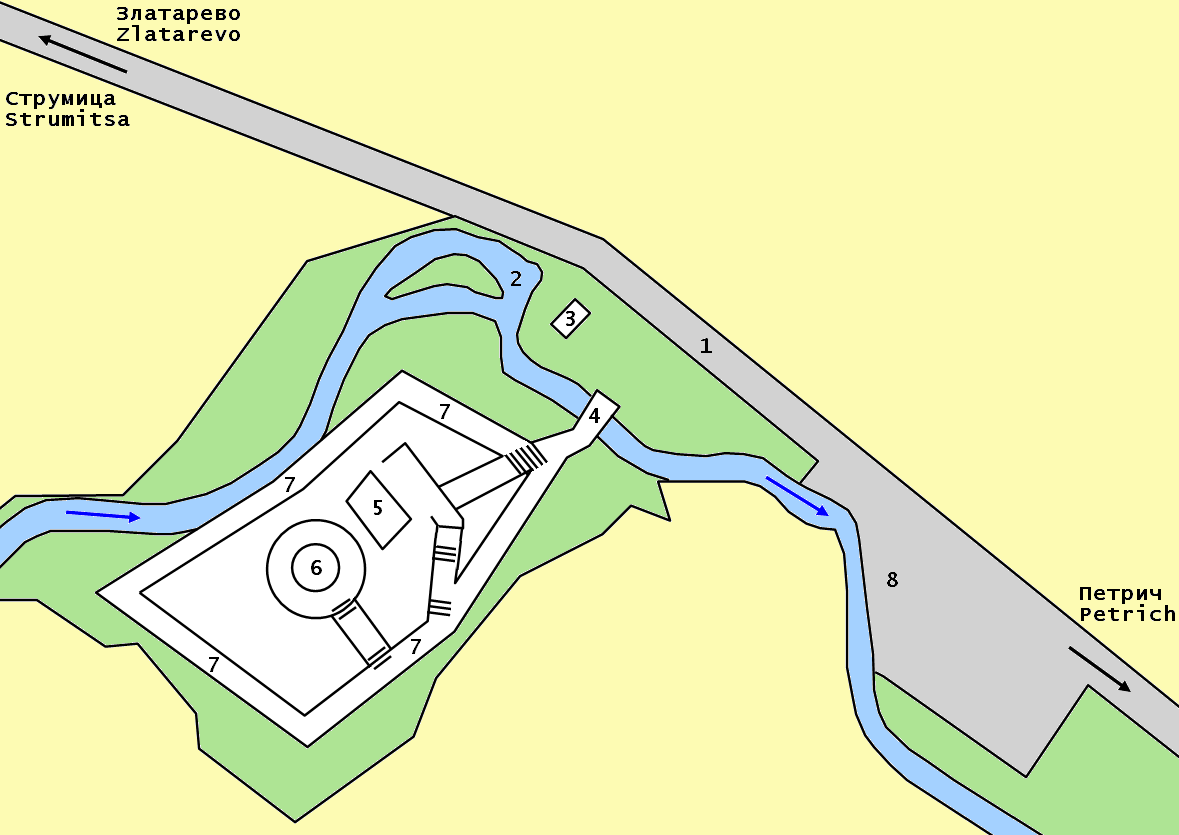 Map of Samuil's fortress in Bulgaria (near villages of Klyuch and Strumeshnitsa, and city of Petrich) 1 - International road Petrich - Strumitsa 2 - Strumeshnitsa River 3 - Ticket office 4 - Bridge 5 - Monument of Tzar Samuil 6 - The tower 7 - Lanes 8 - Parking